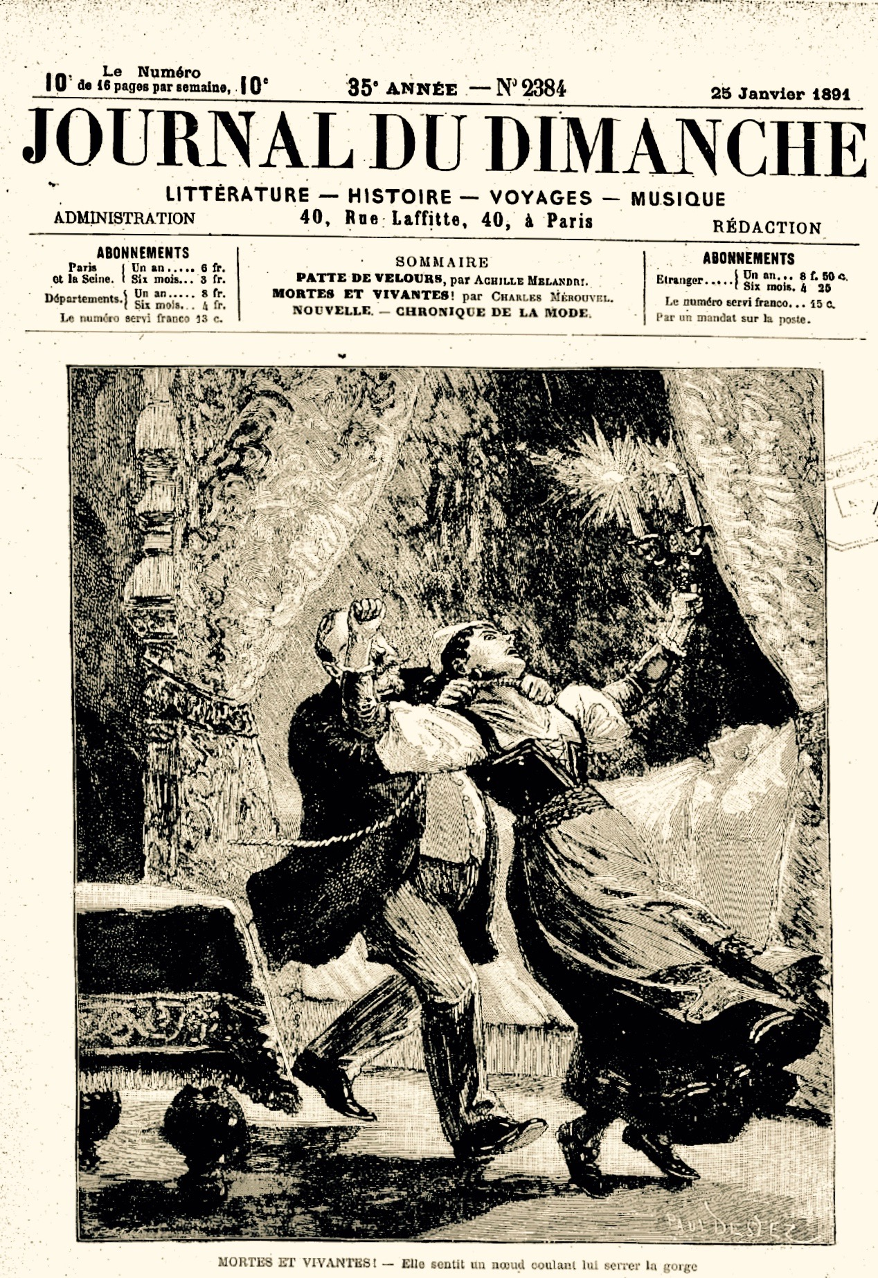 JDD55